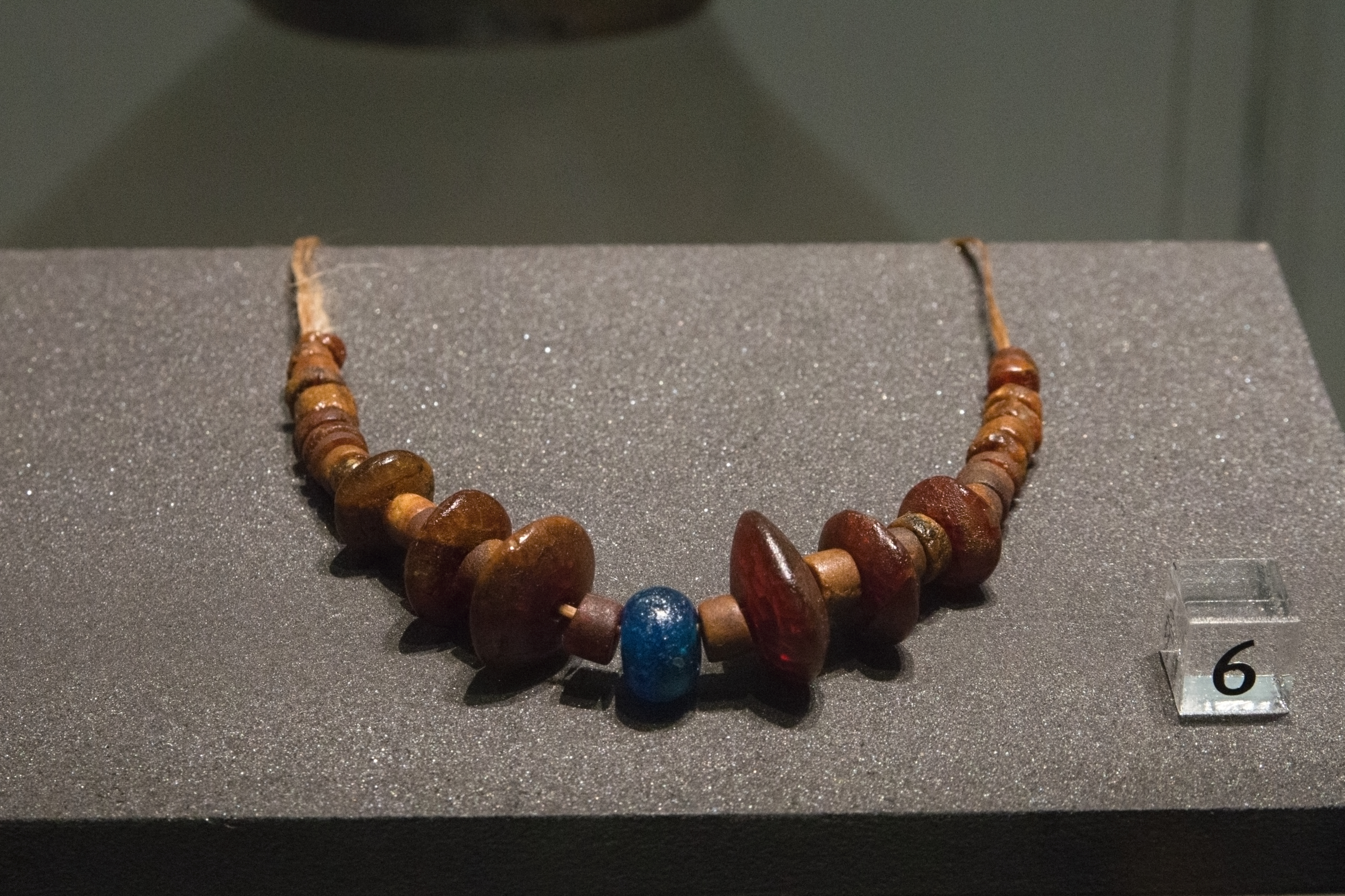 Necklace made of amber beads with a central blue glass bead. Found at Všekary-Husté Leče (Domažlice District), tumulus 2, Middle Bronze Age. Museum of Western Bohemia in Pilsen.